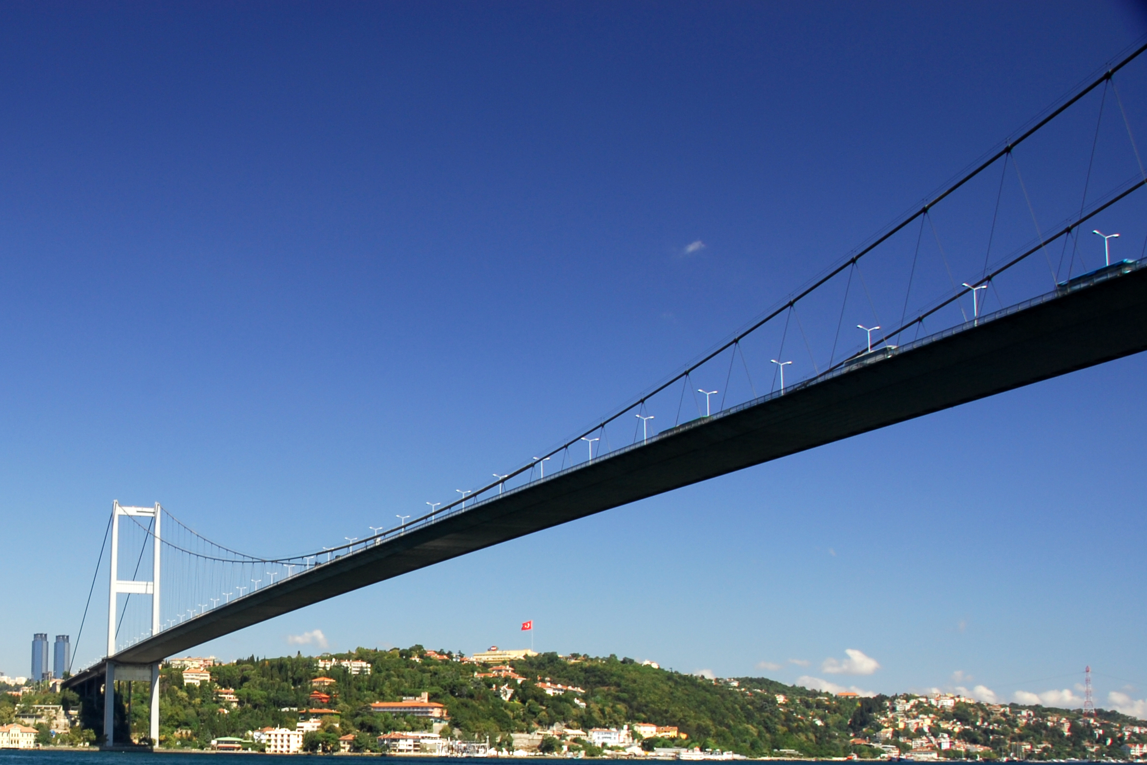 The Bosphorus Bridge connects the European and Asian sides of Istanbul